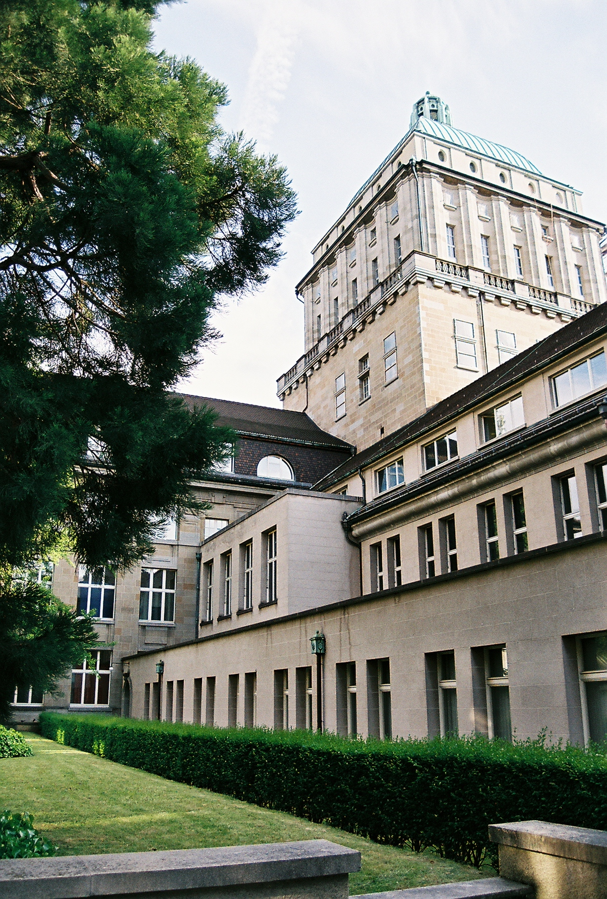 Main building of University of Zürich.